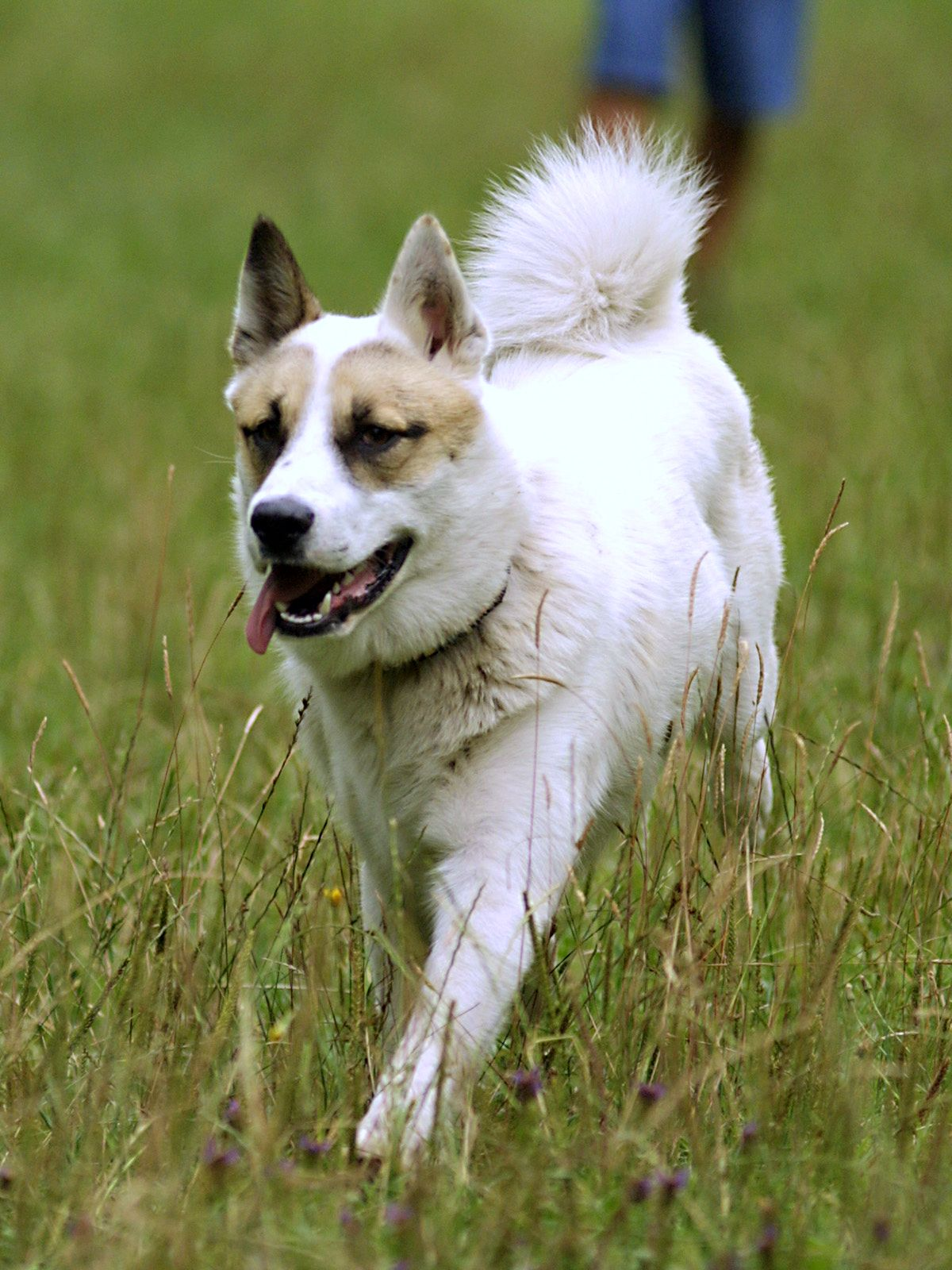 West Siberian Laika male. One year old.